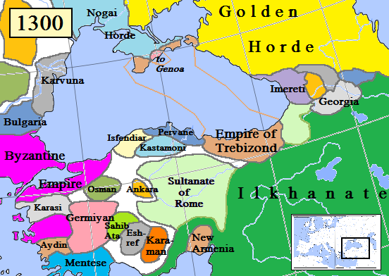 Map of the Trebizond Empire in Anatolia, AD 1300. (Partially based on Euratlas map of Europe, 1300.)